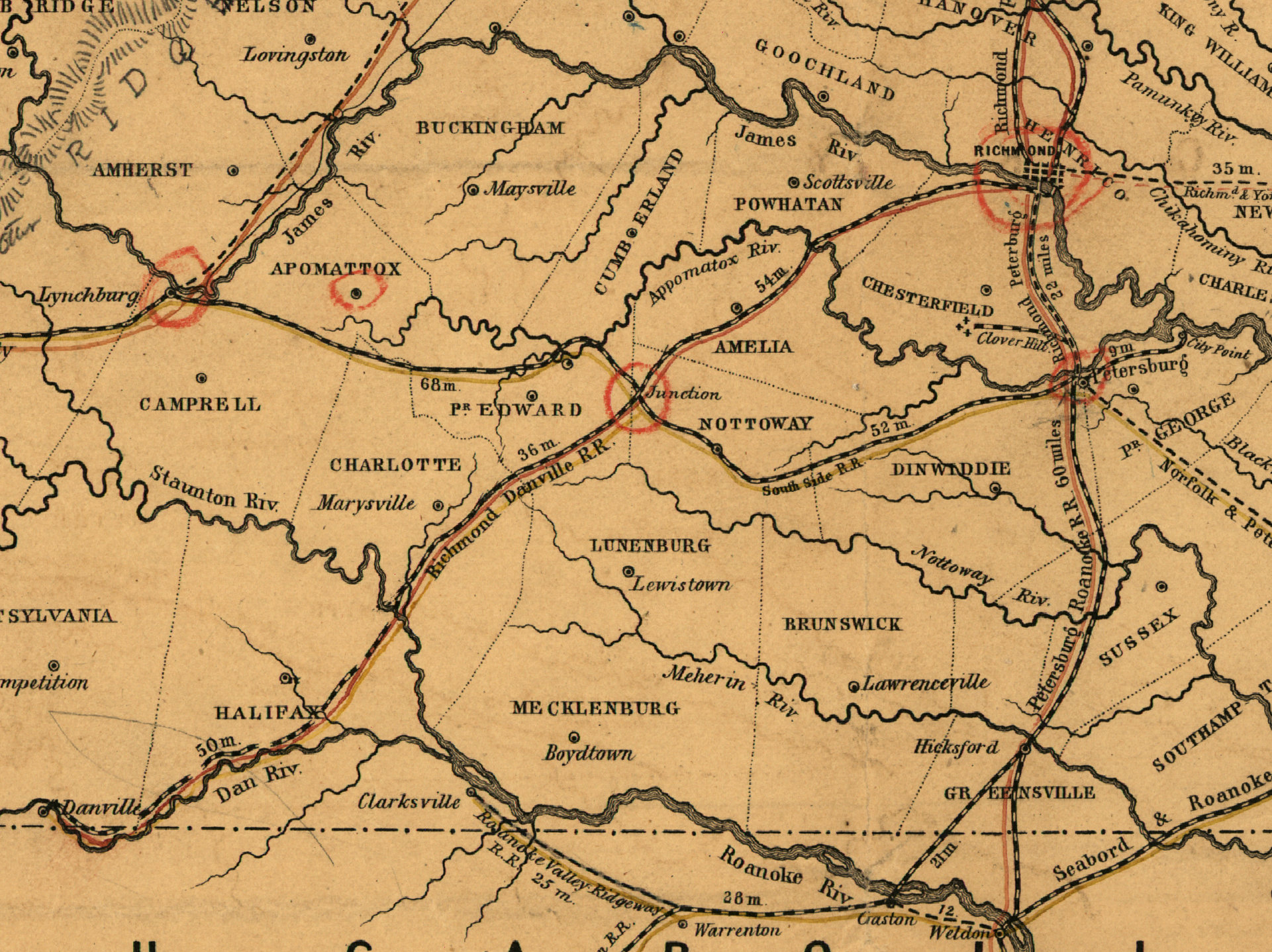 Map of the proposed line of Rail Road connection between tide water Virginia and the Ohio River at Guyandotte, Parkersburg and Wheeling. It is cropped to show the Southside Railroad.